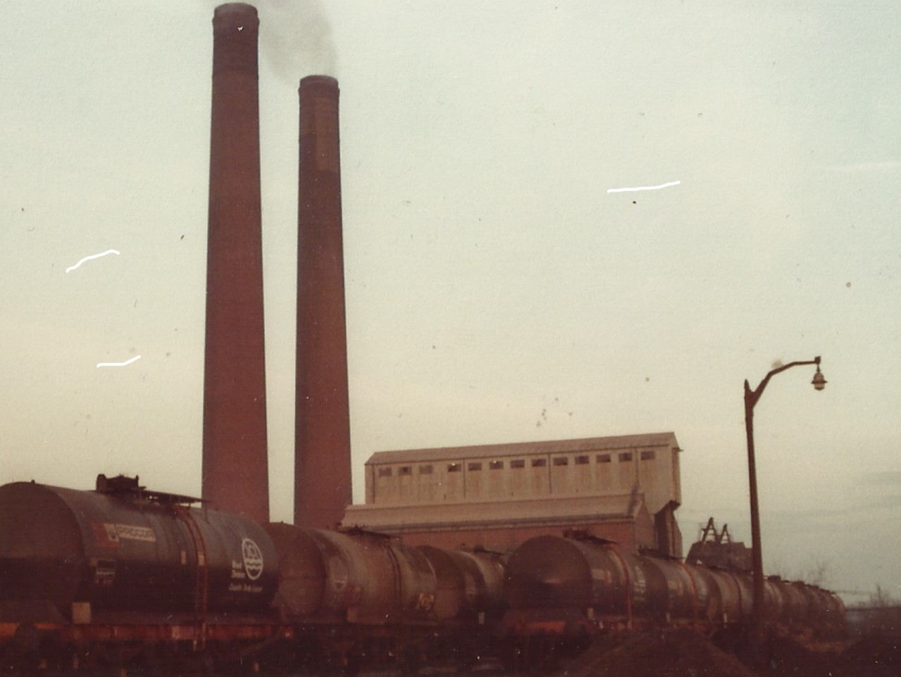 This is Courtaulds Red Scar Works in Preston UK before closure. These are the chimneys and Boiler House along with a train of caustic soda tanks unloading